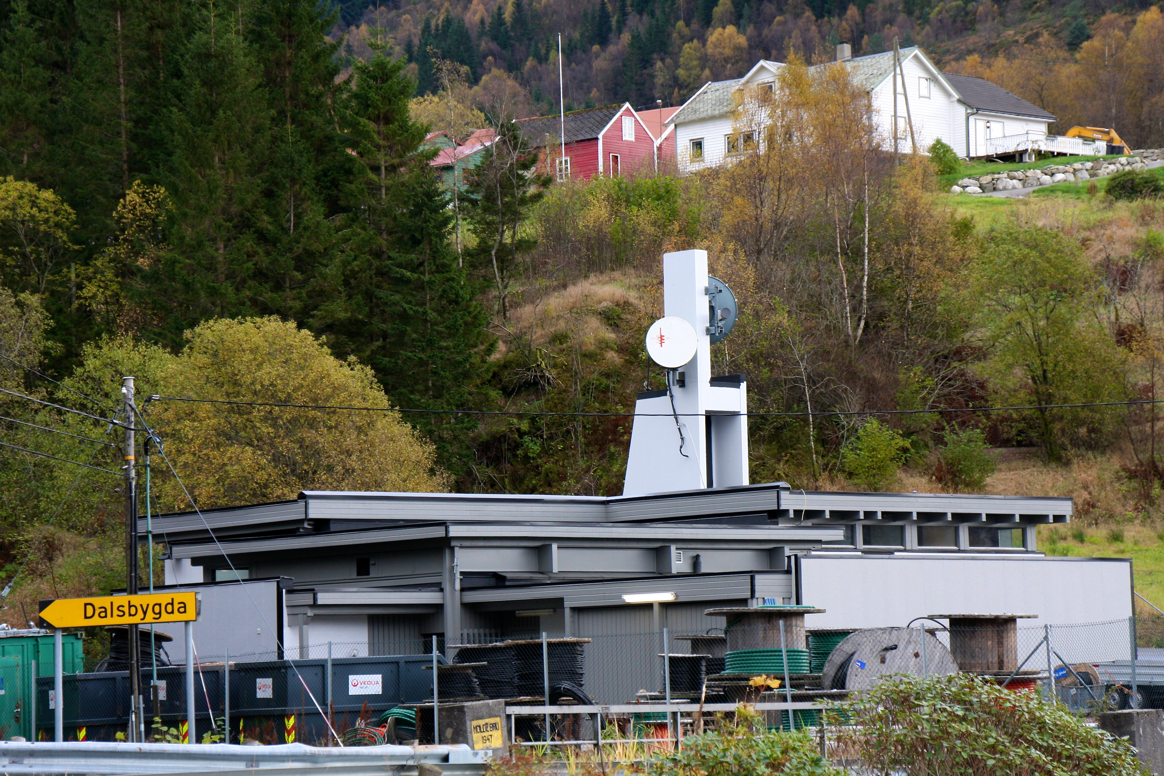 Gulen municipality, Norway.